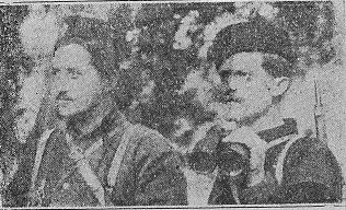 Portrait of Panayot Karamfilovich and Kocho Hadzhimanov from Macedonian-Adrianopolitan Volunteer Corps